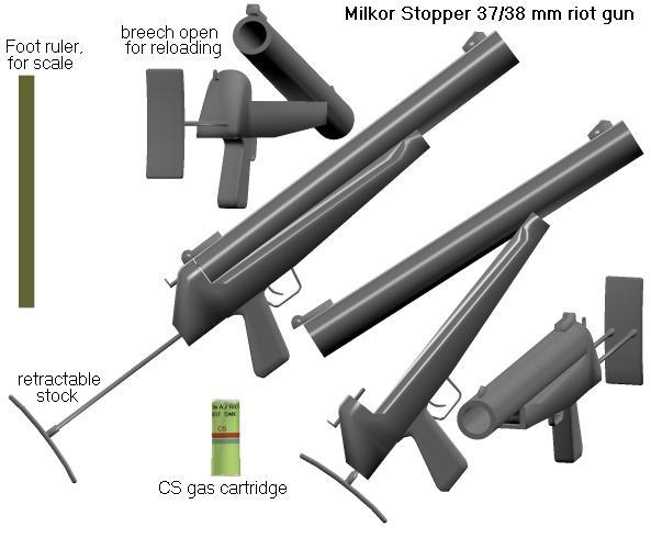 4 views of the Milkor Stopper riot gun. Image made with CGI.